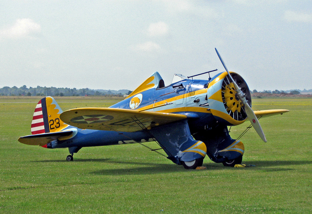 Boeing P-26A 33-0123 NX3378G c/n 1899 in markings of the 95th Pursuit Squadron at Duxford Cambridgeshire England during the 2014 Flying Legends air show.